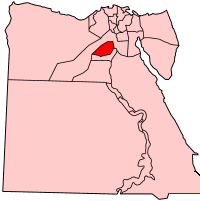 Map of Egypt showing Al Fayyum (Fayum) governorate. Made by User:Golbez based on PD maps.